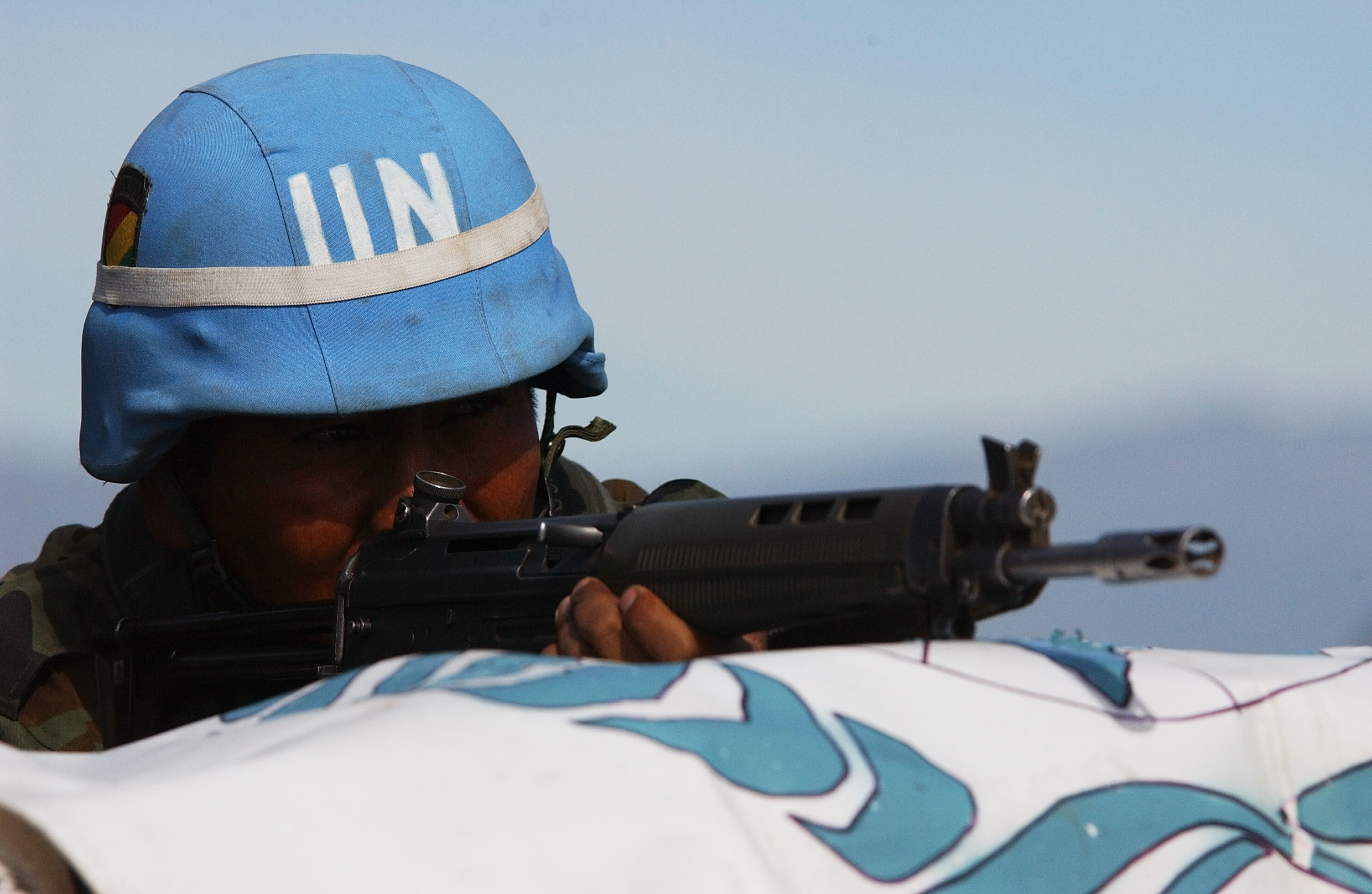 A Bolivian Army soldier prepares to fire during an Observation exercise, Oct. 21, 2002. The purpose of the training is to prepare for the Field Training Exercise portion of Cabanas 2002 Chile, held in Fuerte Lautaro, Chile. Cabanas 2002 Chile is a multinational combined readiness training exercise centered around peacekeeping operational tasks. This exercise provides an opportunity for over 1,300 military and civilian personnel from Argentina, Bolivia, Brazil, Chile, Colombia, Ecuador, Paraguay, Peru, Uruguay, and the United States to increase their state of readiness in combined multinational peacekeeping operations and a forum to encourage human rights. (U.S. Air Force photo by Senior Airman JoAnn S. Makinano) (Released)